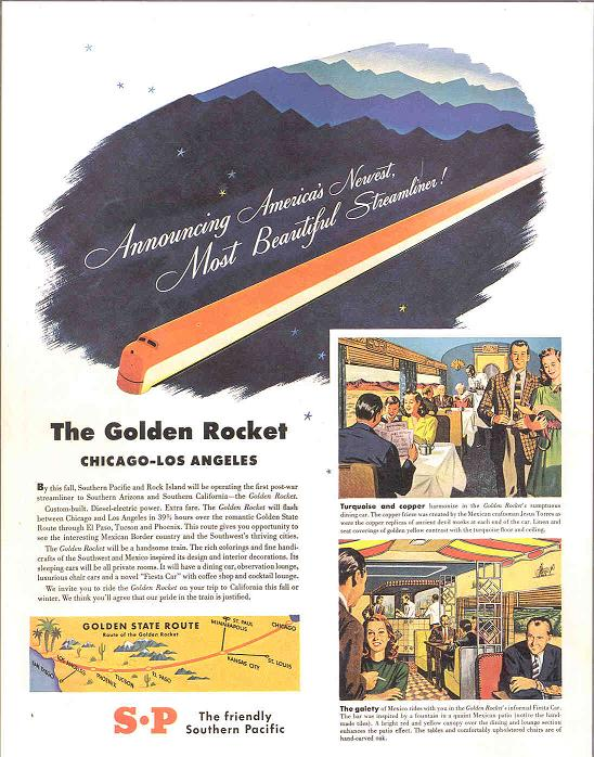 The Southern Pacific's ad for the Golden Rocket, a train which never entered service.